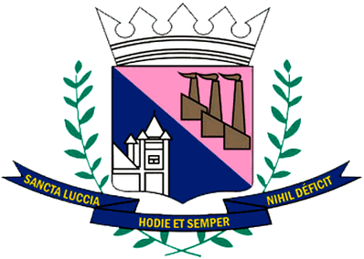 Coat high resolution of the municipality of Santa Luzia.